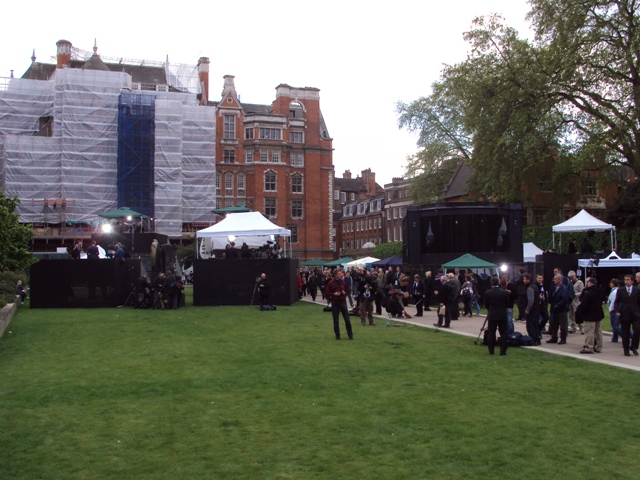 College Green, Westminster, London showing the media encampment for the General Election results and aftermath